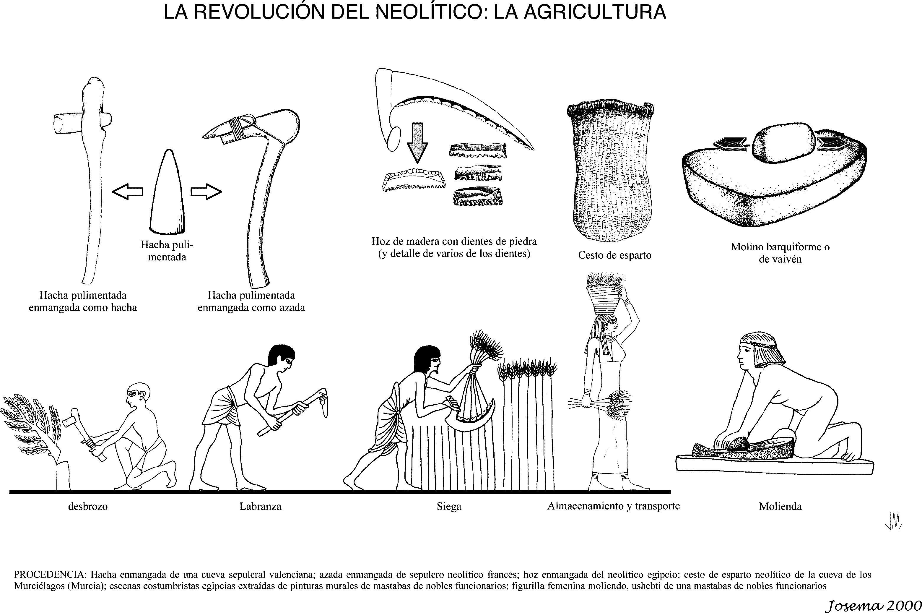 Scheme of commons agricultural task in Neolithic Age in relation with its tools. I have choose egyptian paintings and authentic prehistoric tools of several archaeological sites.